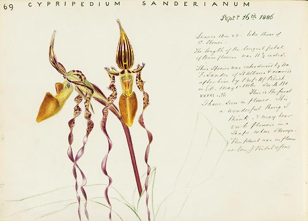 Paphiopedilum sanderianum